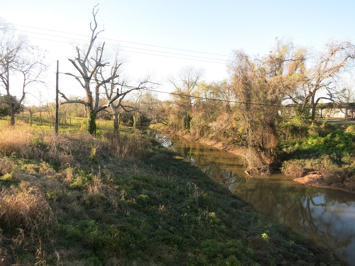 Photo shows Oyster Creek at the FM 290 bridge in the community of Snipe, Texas. The view is toward the northwest.